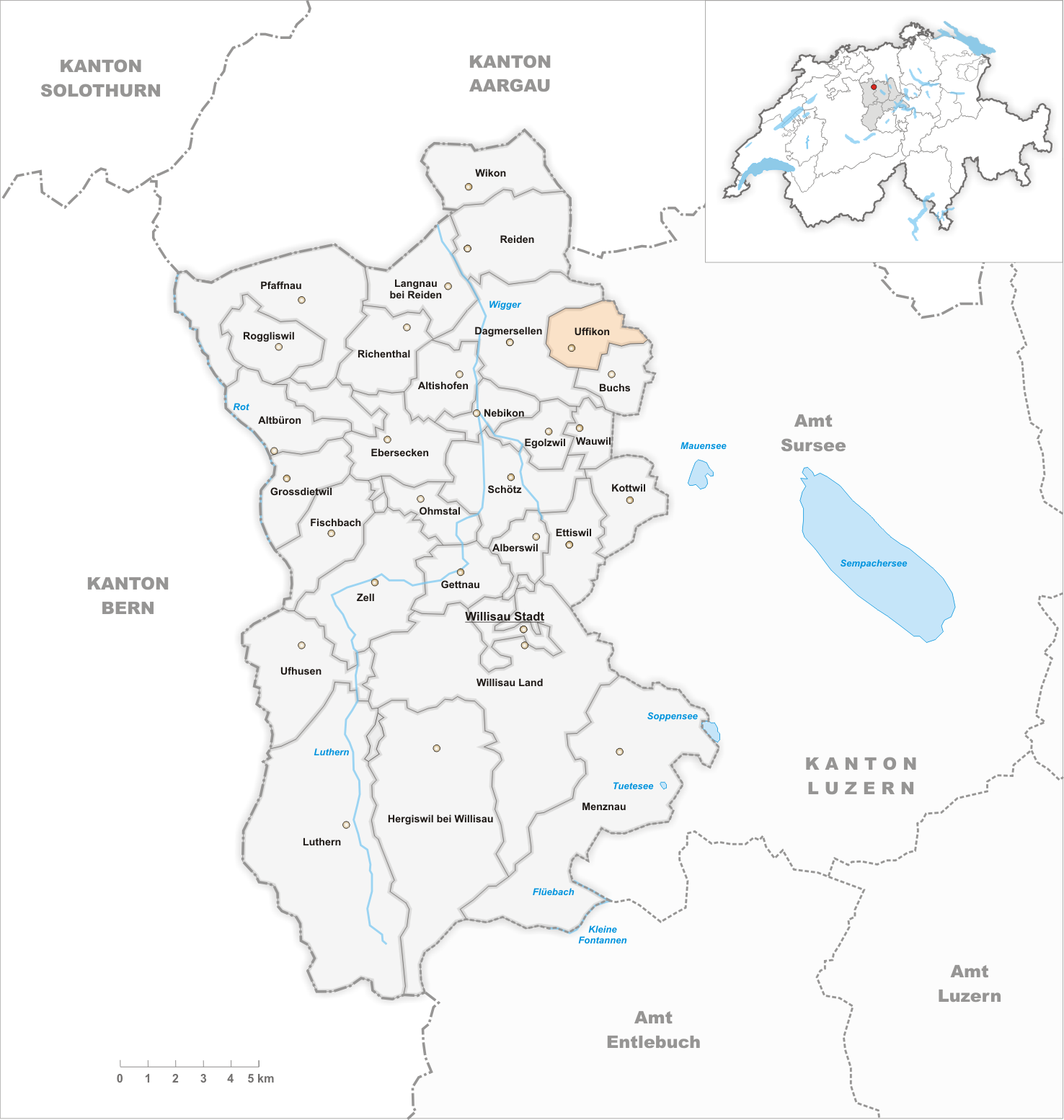 Municipality Uffikon Artist: Tschubby